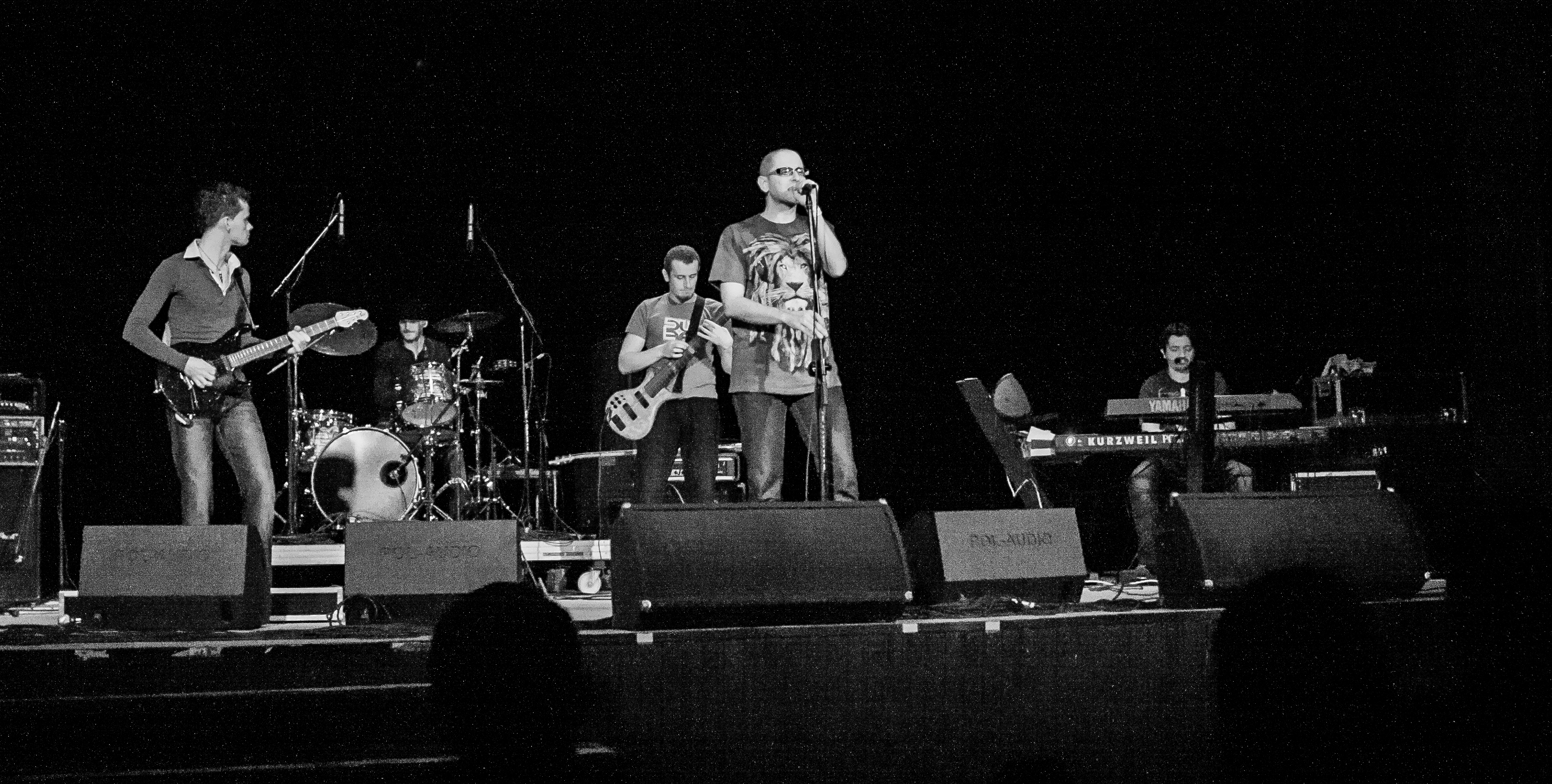 Grupa Millenium podczas festiwalu ACK Electric Nights Festival Progressive Stage w Lublinie (12 listopada 2010).